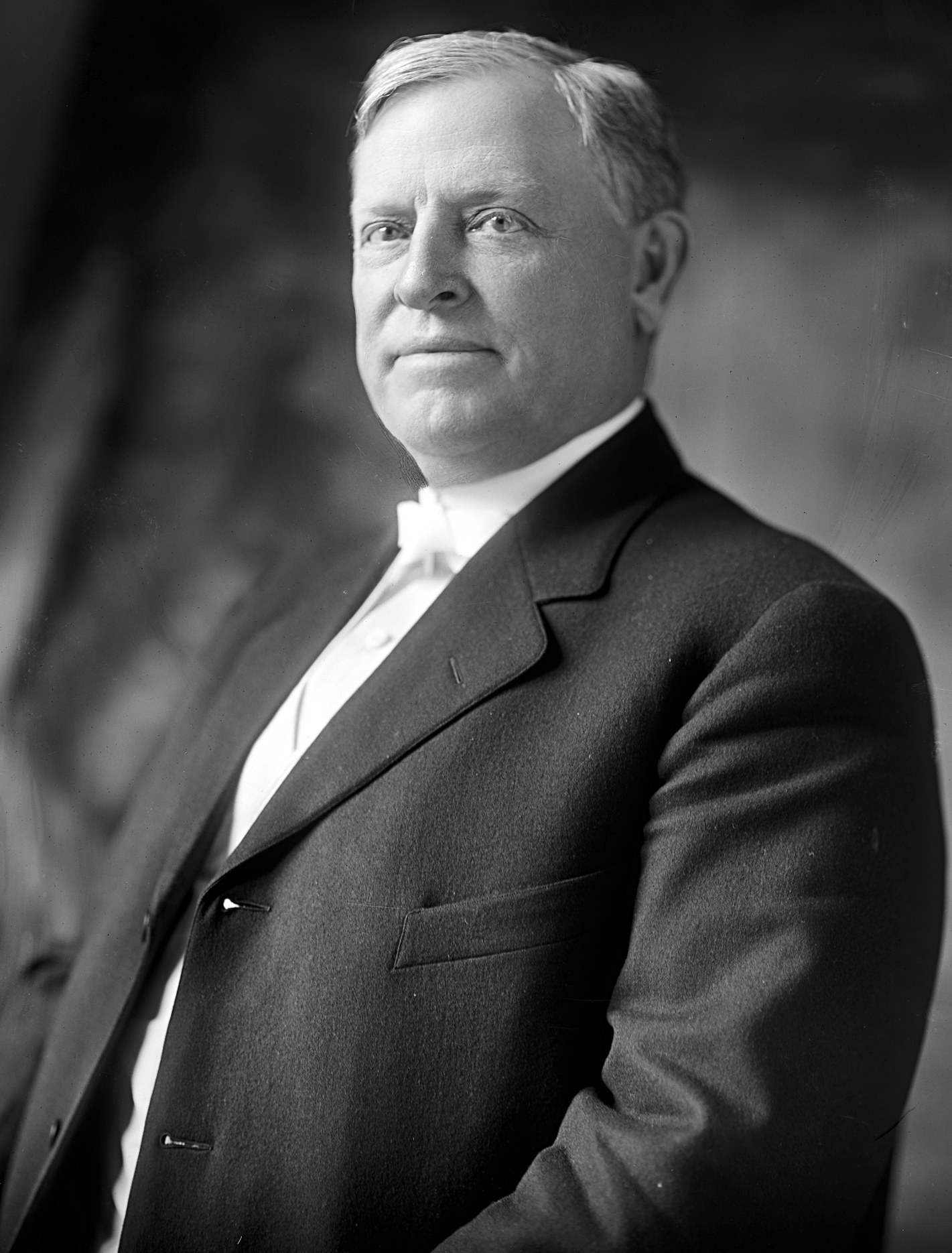 Dannite H. Mays, US Representative from Florida